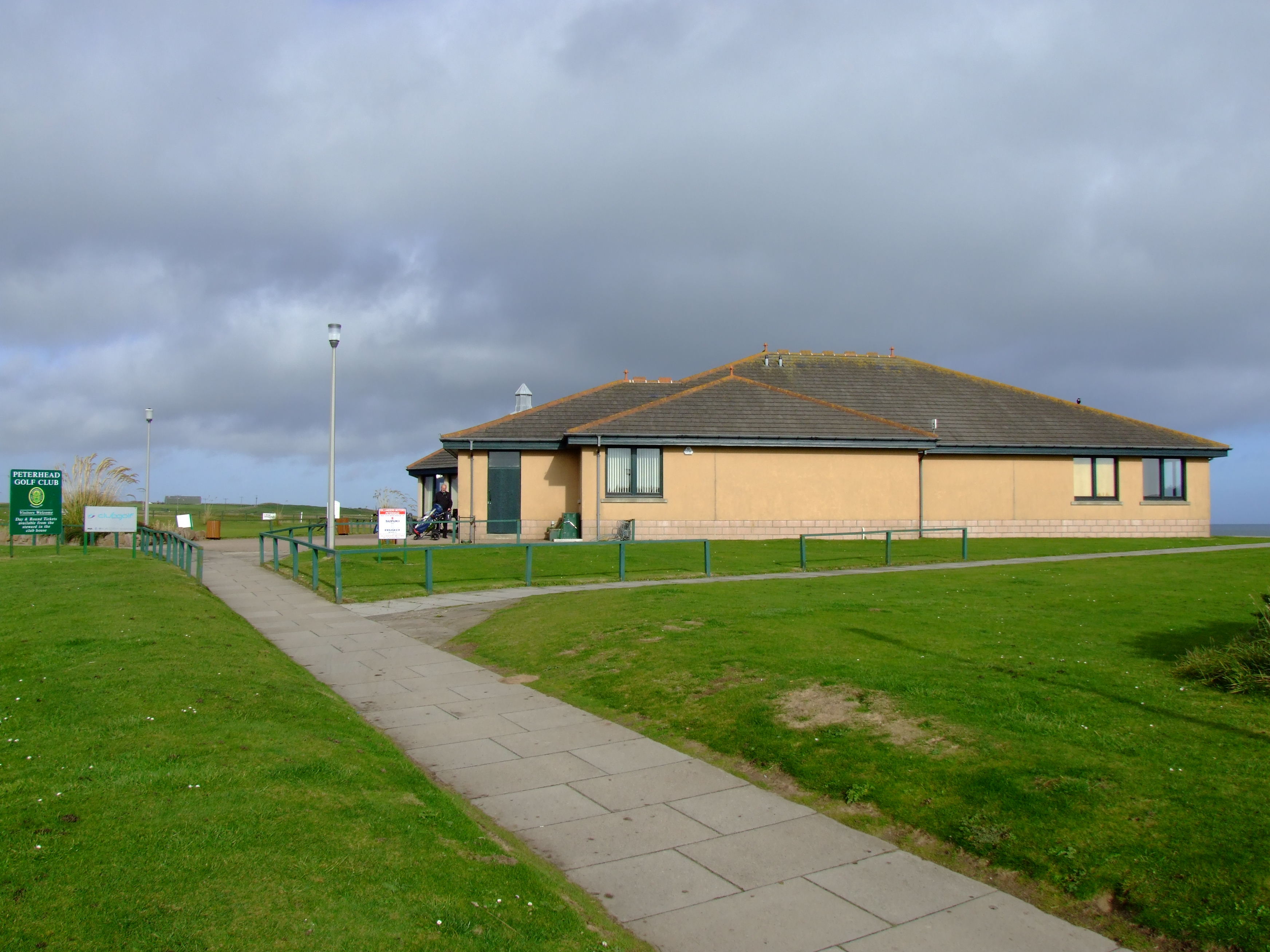 Peterhead Golf Club clubhouse